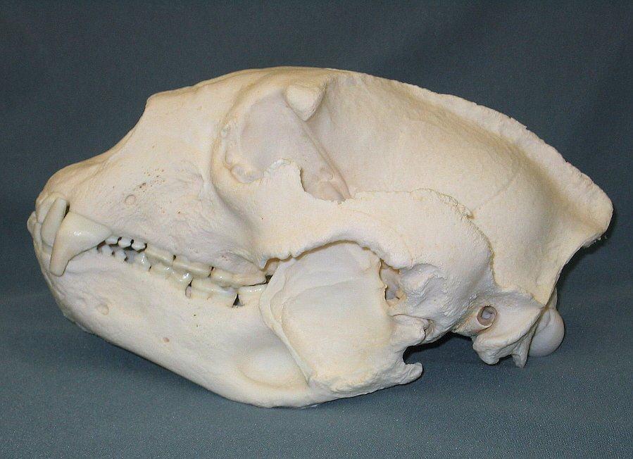 A Spectacled Bear Skull, From the Collections of Skulls Unlimited International.